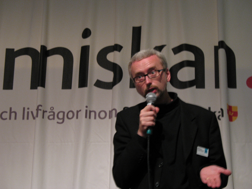 Swedish author Dick Harrisson is talking about his latest book about slavery at the annual Swedish book fair in Gothenburg, September 24th, 2006